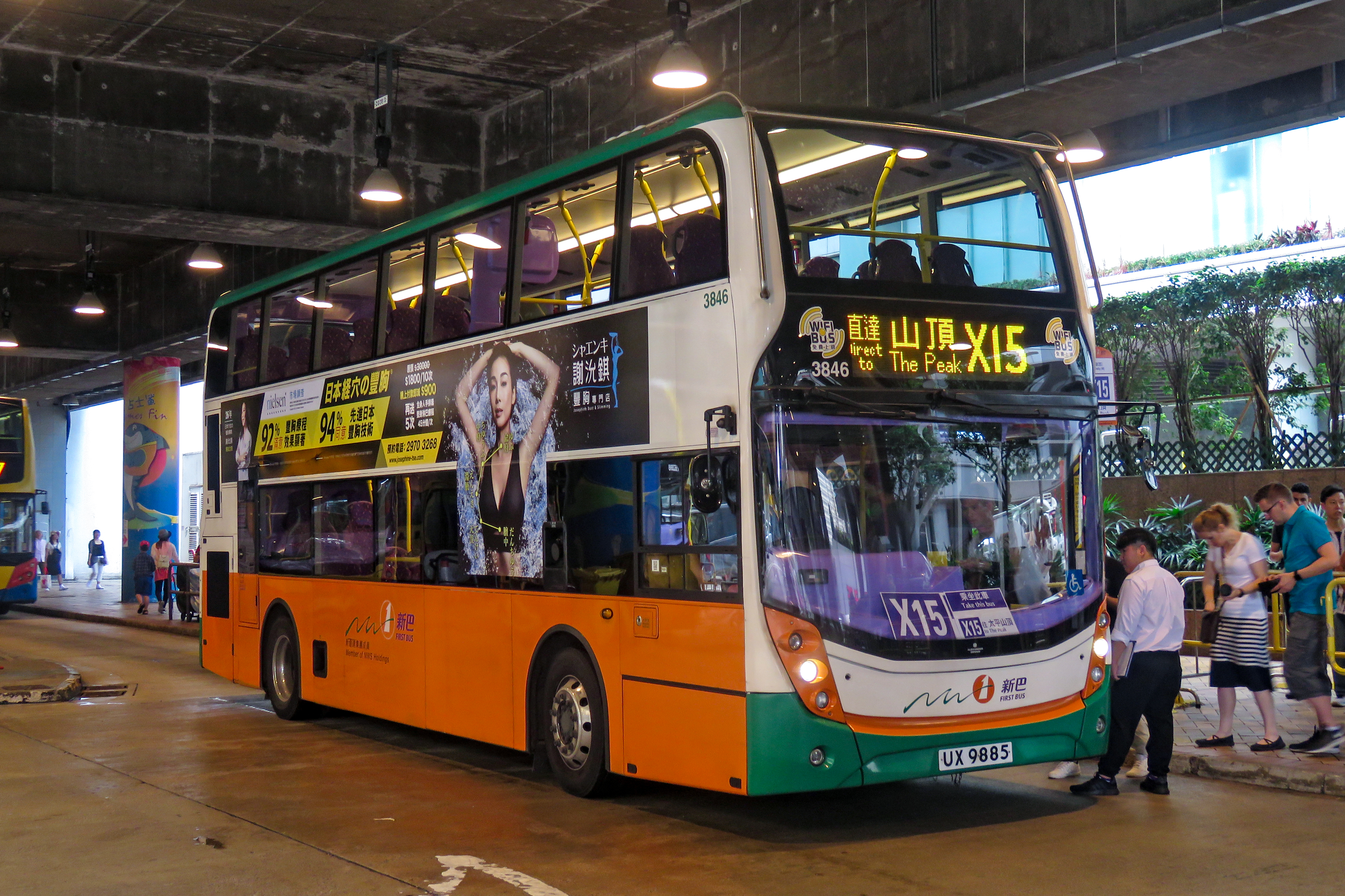 NWFB started route X15 on 23 April 2019 in response to the temporary closure of Peak Tram (for renovation).